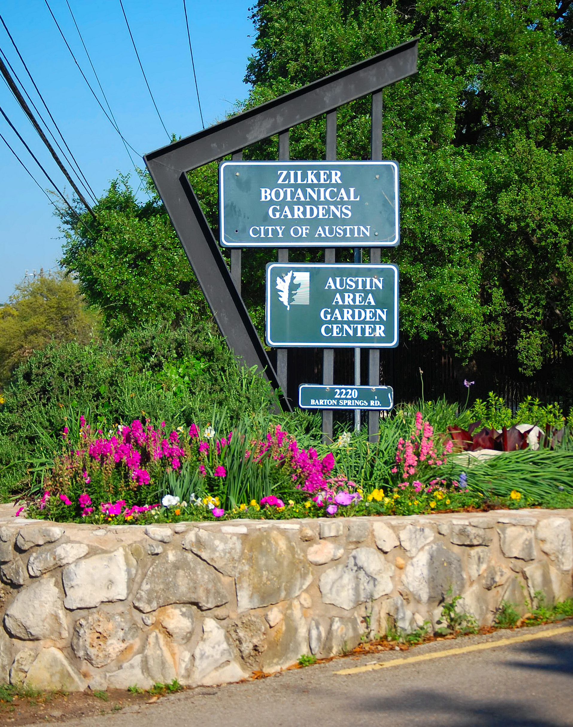 Zilker Botanical Garden main entrance